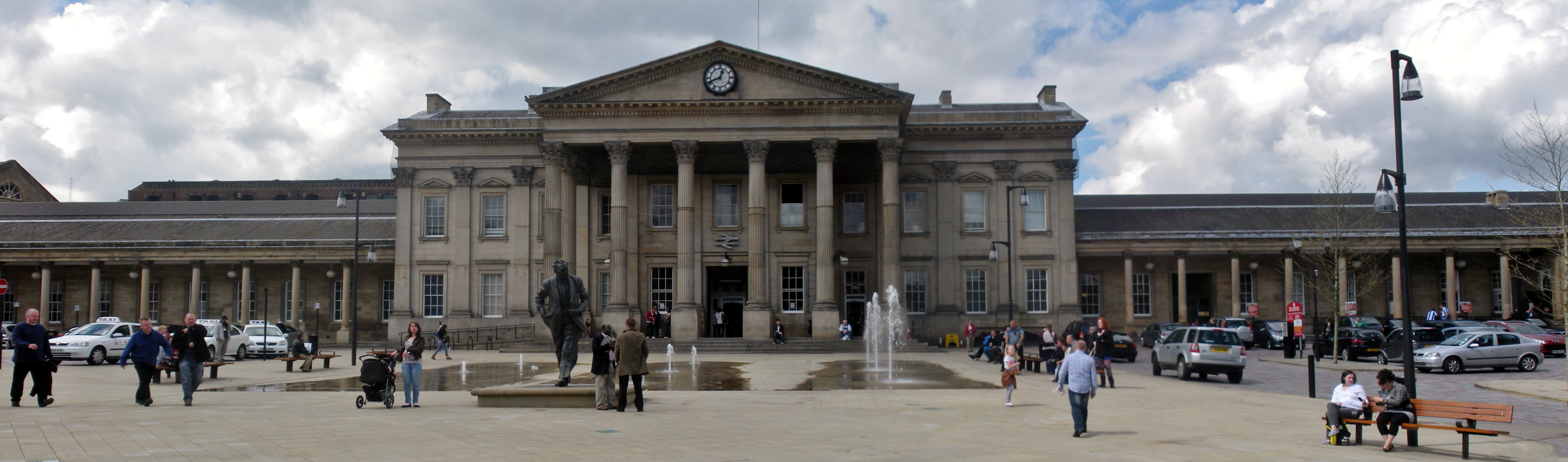 Huddersfield railway station in St Georges Square, A bronze statue of the late former Prime Minister of the United Kingdom Harold Wilson stands in the square before it. Wilson originated from the town.